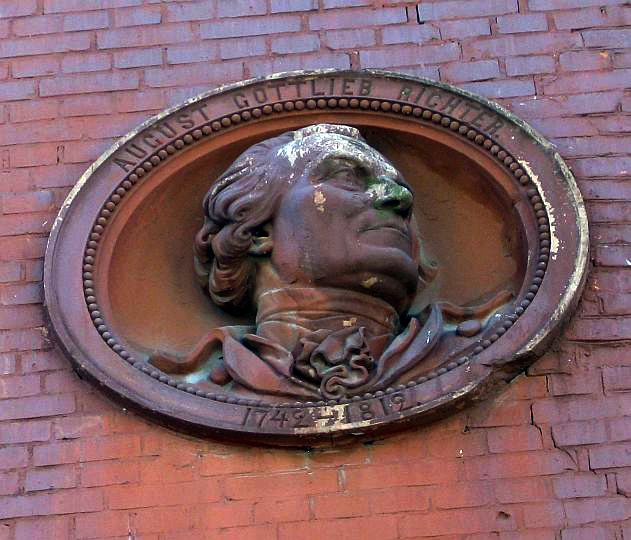 August Gottlieb Richter was a famous surgeon. The university of Königsberg honored him with a relief, situated on a building of the University, todays Kaliningrd-Russia